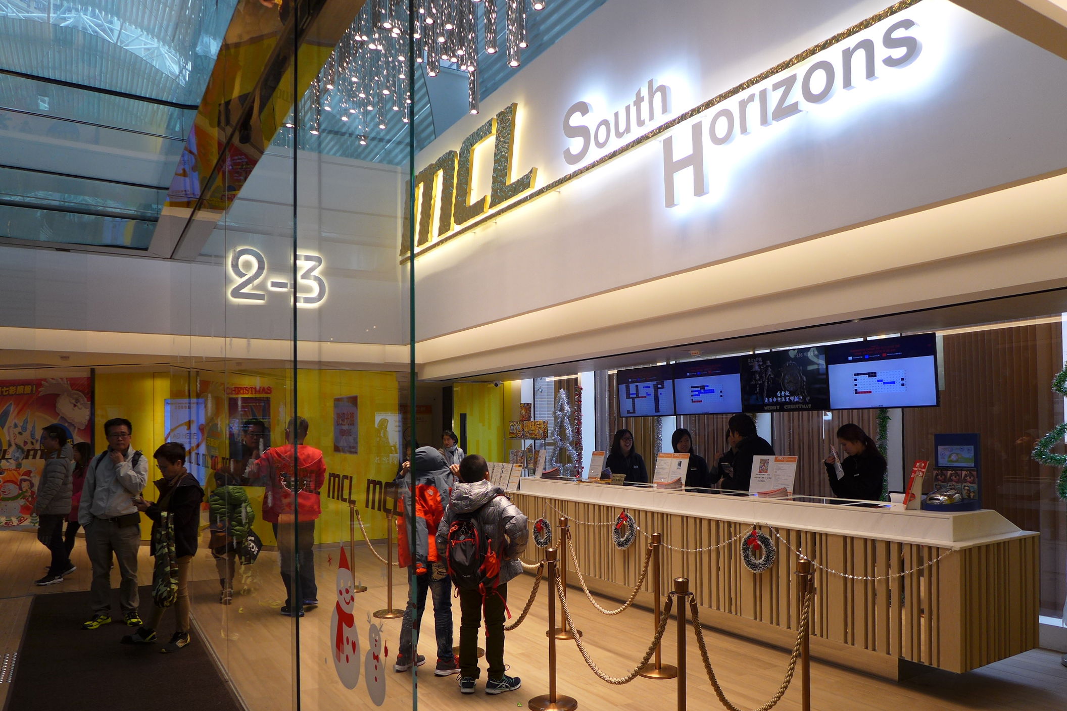 MCL Cinema South Horizons